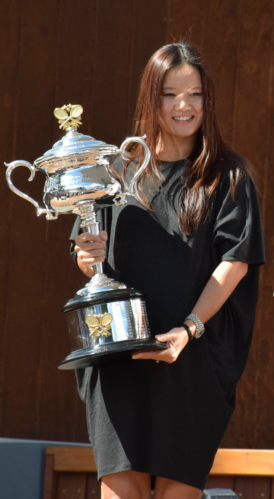 Reigning 2014 champion Li Na holds Daphne Akhurst Memorial Cup at the Australian Open 2015